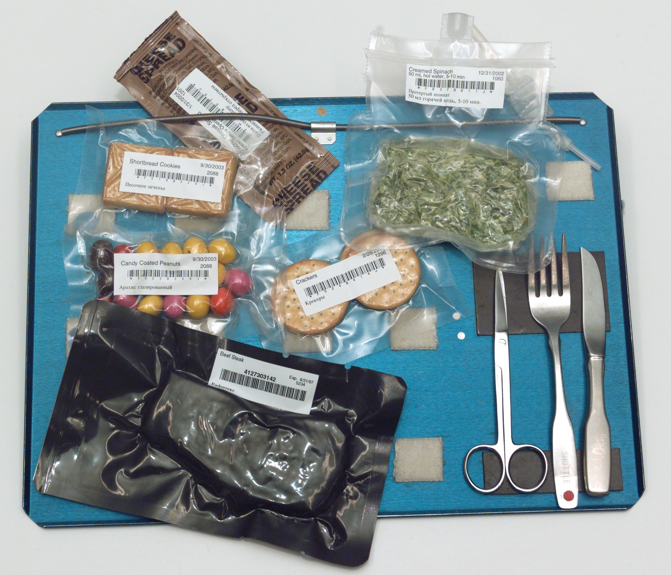 Image taken in the Food Tasting lab in building 17: Bags of International Space Station food and utensils on tray. See table below for food item label transcription.